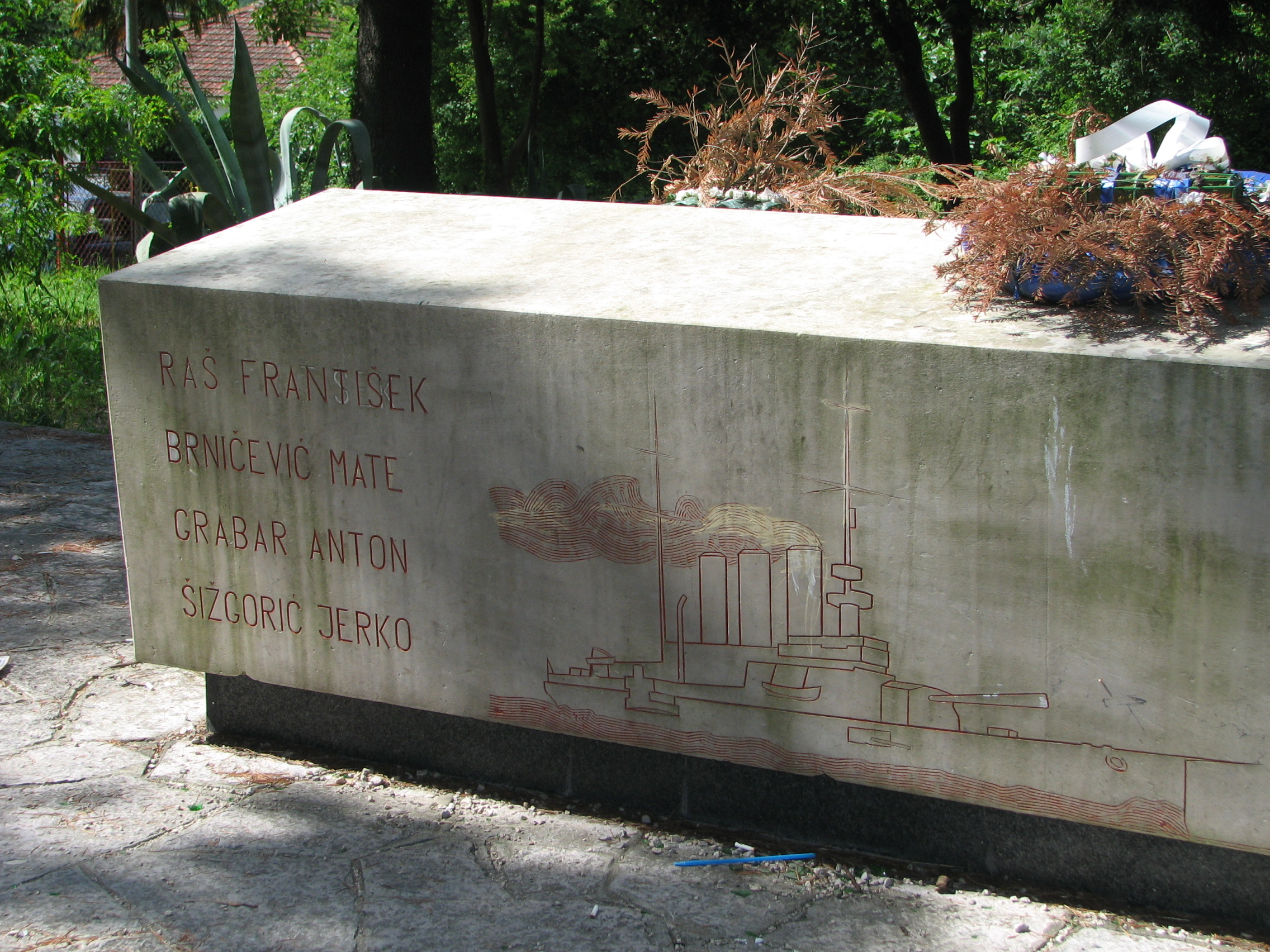 Kotor Memorial for Gulf of Kotor Mutiny